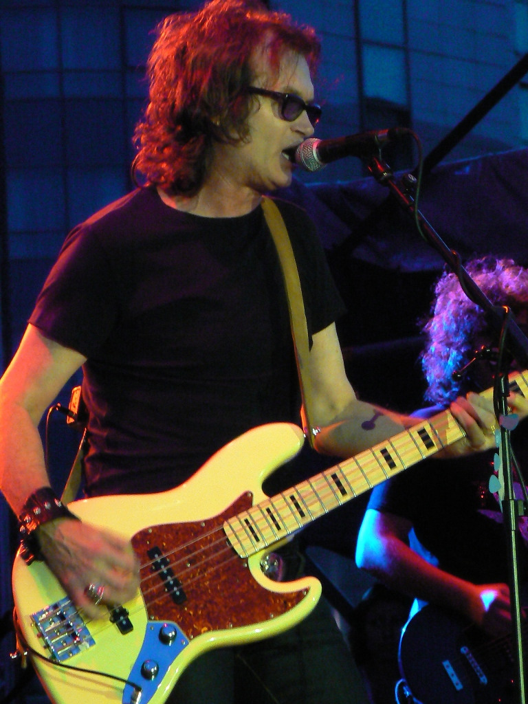 Glenn Hughes on a free concert in Sofia, Bulgaria